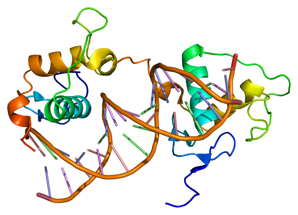 Structure of the RARG protein. Based on PyMOL rendering of PDB 1dsz.